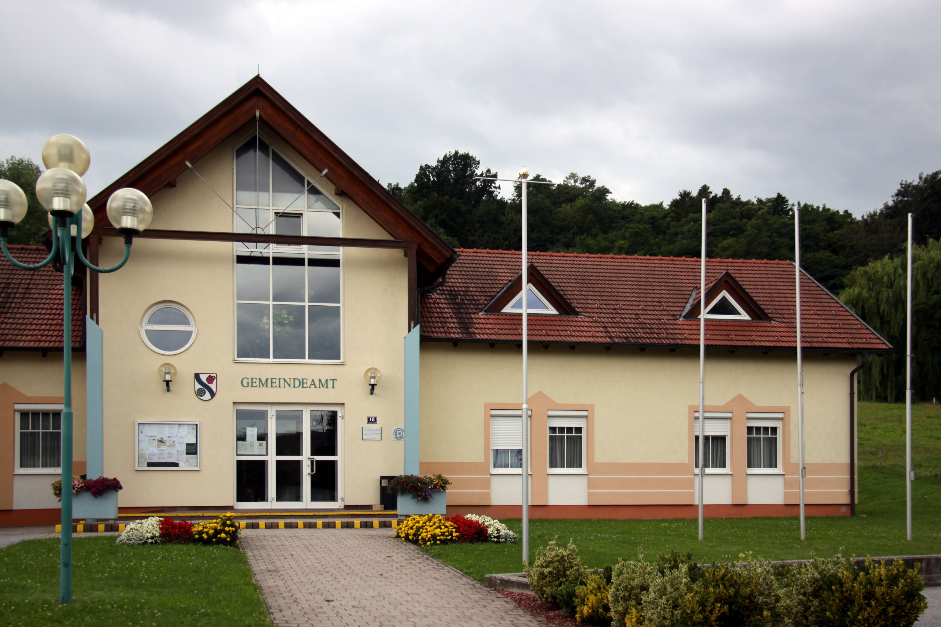 Jabing - municipal office